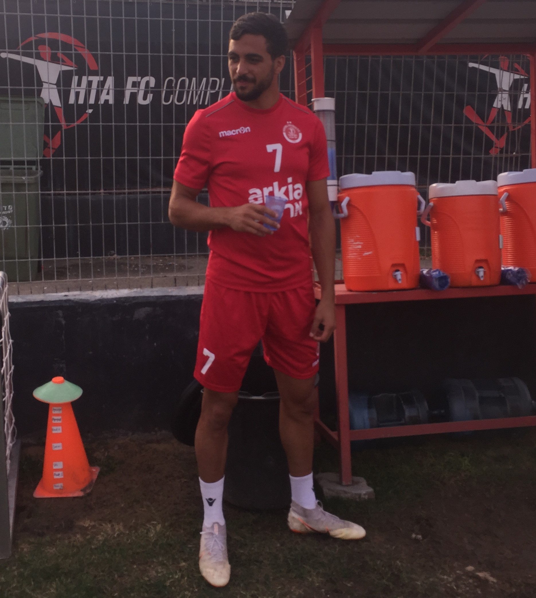 Hapoel Tel Aviv FC Player Ahmad Abed, October 2018